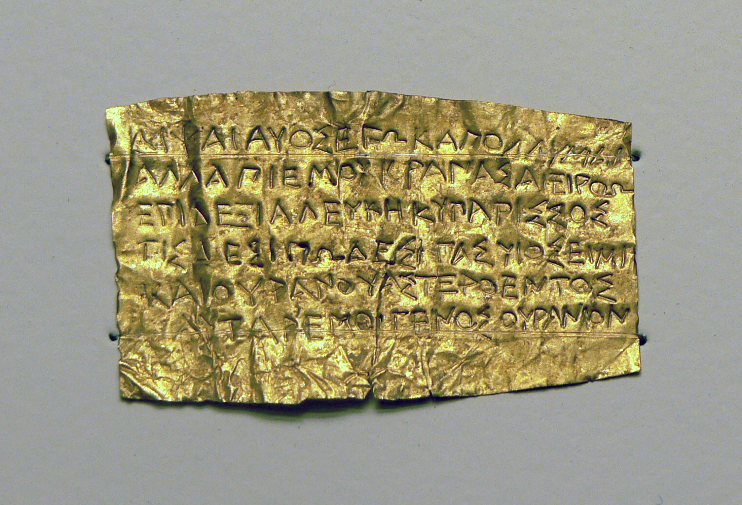 Gold sheet with Orphic prayer found in an unknown site in Tessaglia, contained in a bronze funeral urn. Dateable to the 4th century BCE and preserved today in the J.P. Getty Museum a Malibu (California). OF 484 (Tessaglia? mm 22x37) IV secolo a.C.; J. P. Getty Museum Mailbu (California). ΔΙΨΑΙΑΥΟΣΕΓΟΚΑΠΟΛΛΜΑΙ= Di sete son arso e mi sento venir meno: ΑΛΛΑΠΙΕΜΟΥΚΡΑΝΑΣΑΙΕΙΡΟΩ= ma datemi da bere (l'acqua) della fonte che scorre perenne. ΕΜΙΔΕΞΙΑΛΕΥΚΗΚΥΠΑΡΙΣΣΟΣ= A destra (v'è) un bianco cipresso. ΤΙΣΔΕΣΙΠΩΔΕΣΙΓΑΣΥΙΟΣΕΙΜΙ= -Chi sei? Donde sei?- Son figlio della Terra ΚΑΙΟΥΡΑΝΟΥΑΣΤΕΡΟΕΝΤΟΣ= e del Cielo stellato; ΑΥΤΑΡΕΜΟΙΓΕΝΟΣΟΥΡΑΝΙΟΝ= sì, la mia preghiera è celeste. Traduzione di Giovanni Pugliese Carratelli (in Le Lamine d'oro orfiche, Milano, Adelphi, 2001, p.94) I am parched with thirst and I perish. But give me to drink from the everflowing spring. On the right is a white cypress. “Who are you? From where are you?” I am the son of Earth and starry Heaven. But my race is heavenly. Traduzione di Radcliffe G. Edmonds III, (in The 'Orphic' Gold Tablets and Greek Religion, Cambridge, Cambridge University Press, 2011, p.29).